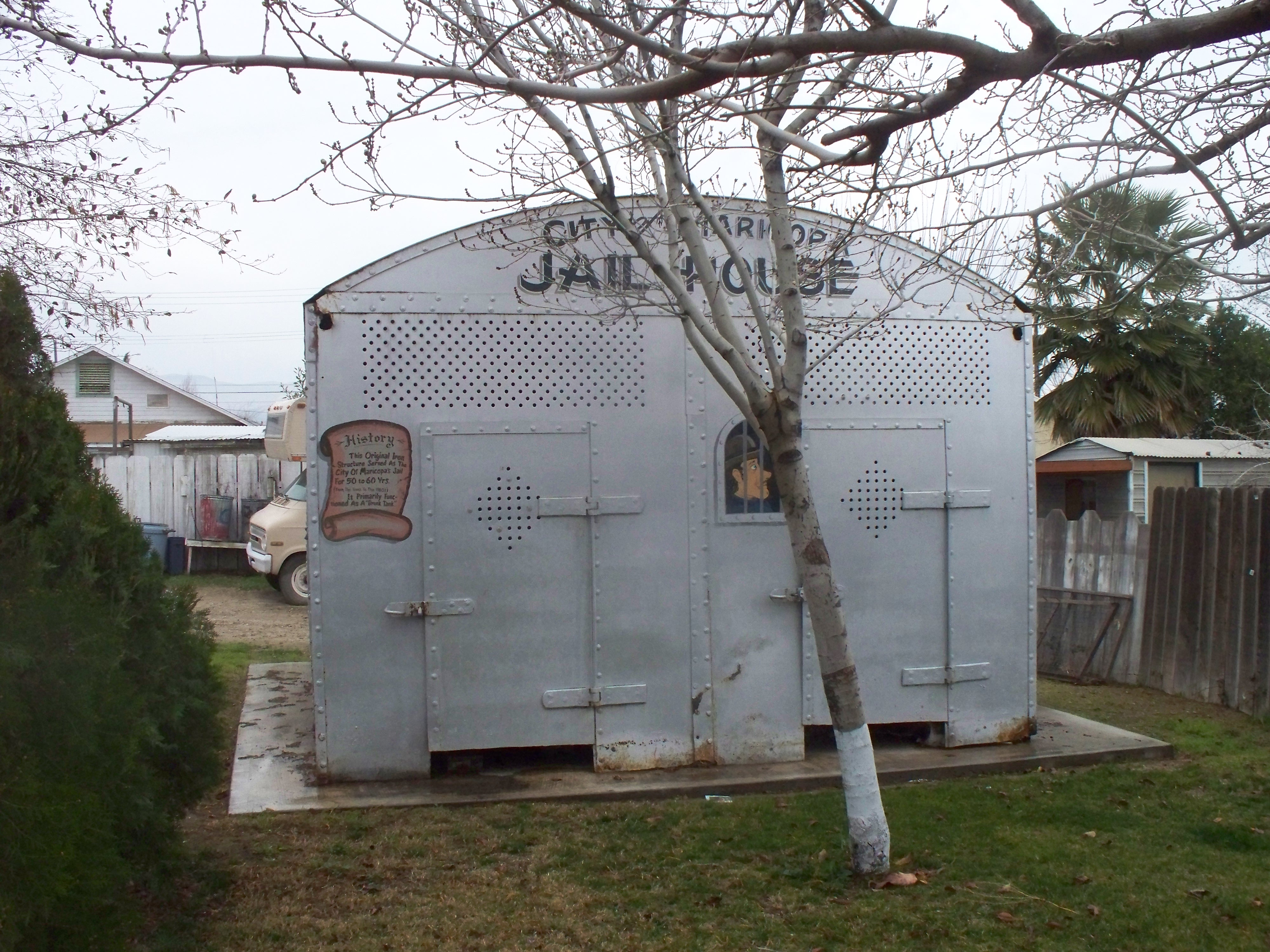 HISTORY This original Iron structure Served as the cit of Maricopa's Jail for 50 to 60 years. from the teens to the 60's it primarily functioned as a "drunk tank"